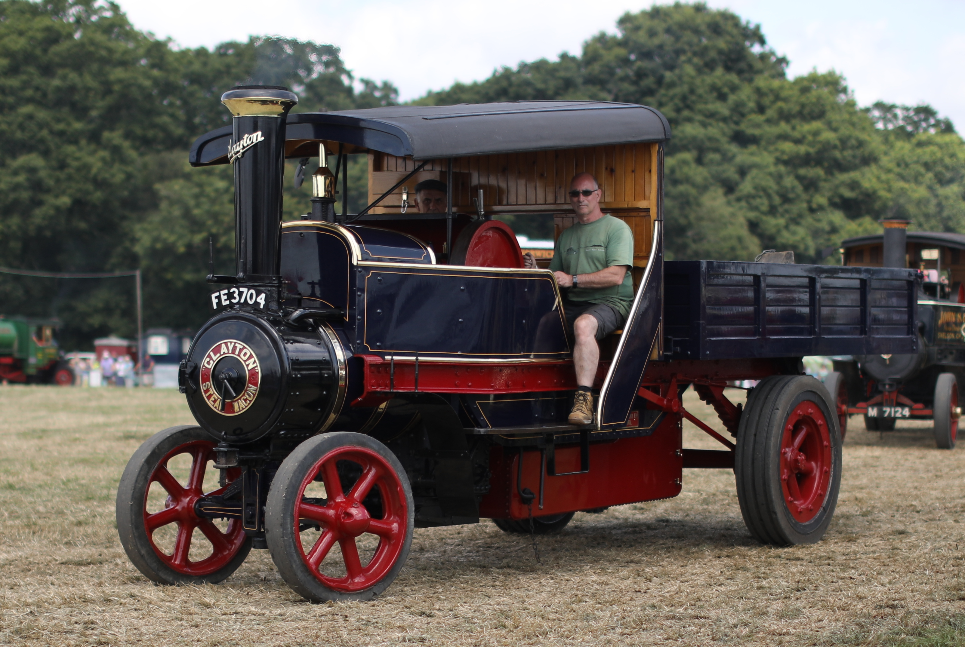 Photo of a 5 ton Clayton and Shuttleworth steam wagon dating from 1920. Netly Marsh Steam and Craft Show program No. 30